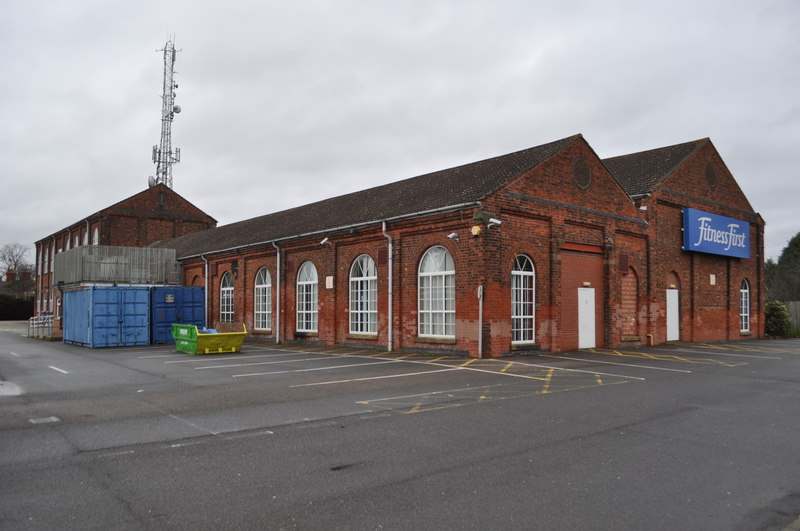 Great Northern Railway Boston Works, near to Boston, Lincolnshire, Great Britain. The ex Great Northern Railway Boston Works. Now a Fitness First health club. The work was transferred from here and Peterborough to Doncaster in the 1850s, thus creating the massive 'plant'. SE5703 : Diesels at Donny